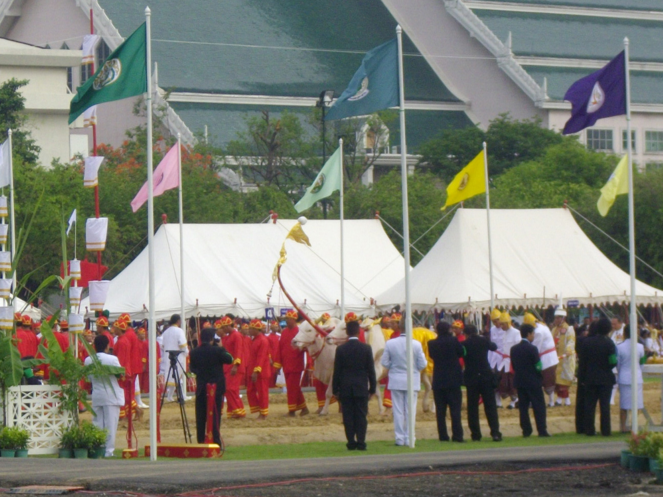 Royal Ploughing Ceremony in Thailand at Sanam Luang, Bangkok, 11 May 2009.